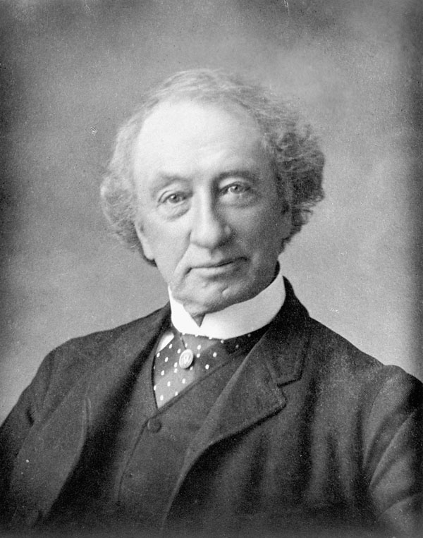 cropped image of John A. Macdonald, Prime Minister of Canada, ca. 1875 by George Lancefield